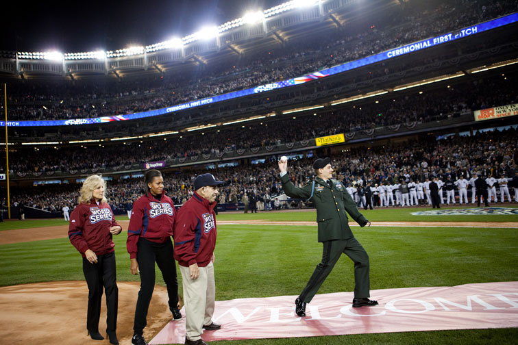 Tony Odierno, a West Point graduate and Yankees employee who lost his left arm in Iraq, throws the first pitch, as First Lady Michelle Obama, Dr. Jill Biden, and Yogi Berra look on at the beginning of Game 1 of the World Series.